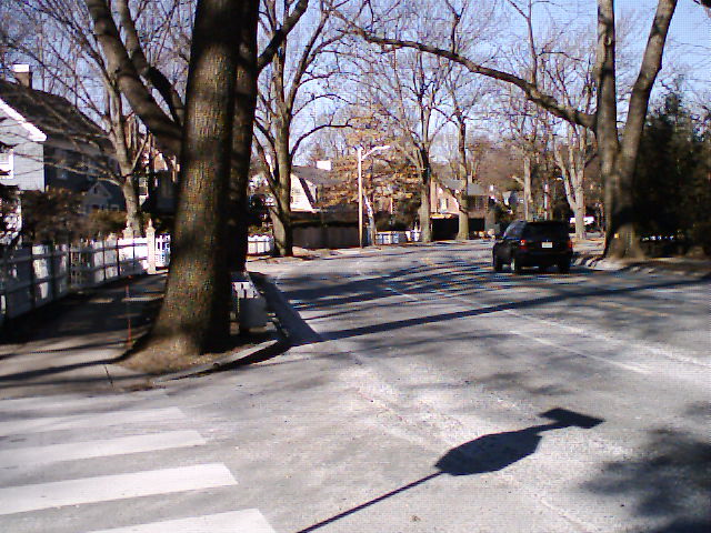 Fresh Pond Parkway (northbound) between Brattle Street and Huron Avenue.